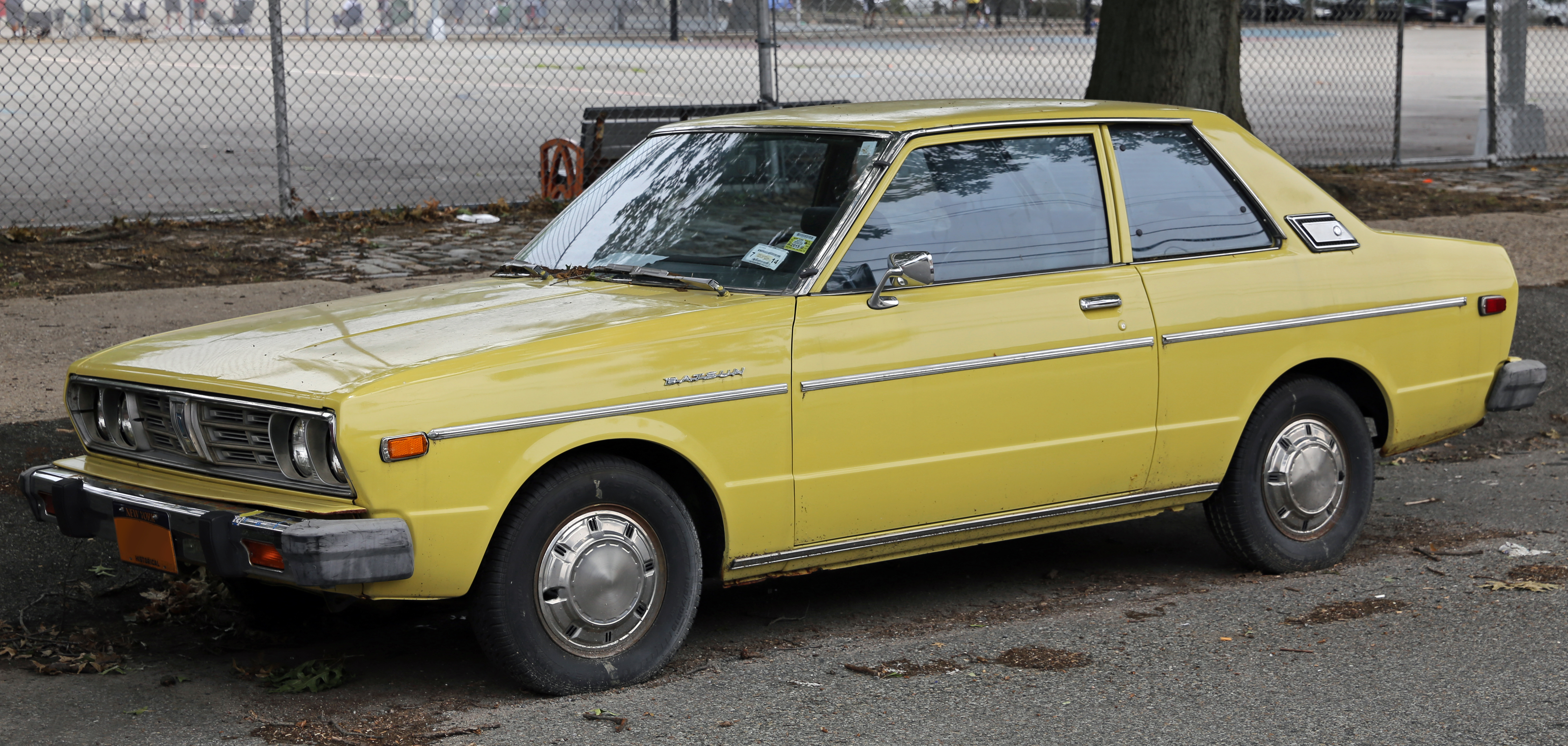 1978 Datsun 510 two-door sedan (North American name for the A10-series Nissan Violet) in Bellerose, Queens, NY. 2.0 litre L20B inline-four engine.